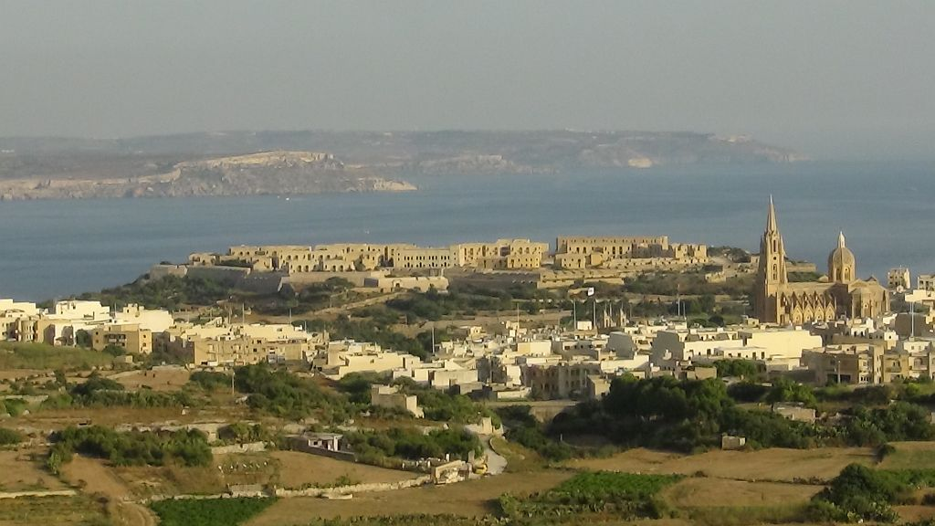 Fort Chambray on Gozo, Malta, seen from Nadur